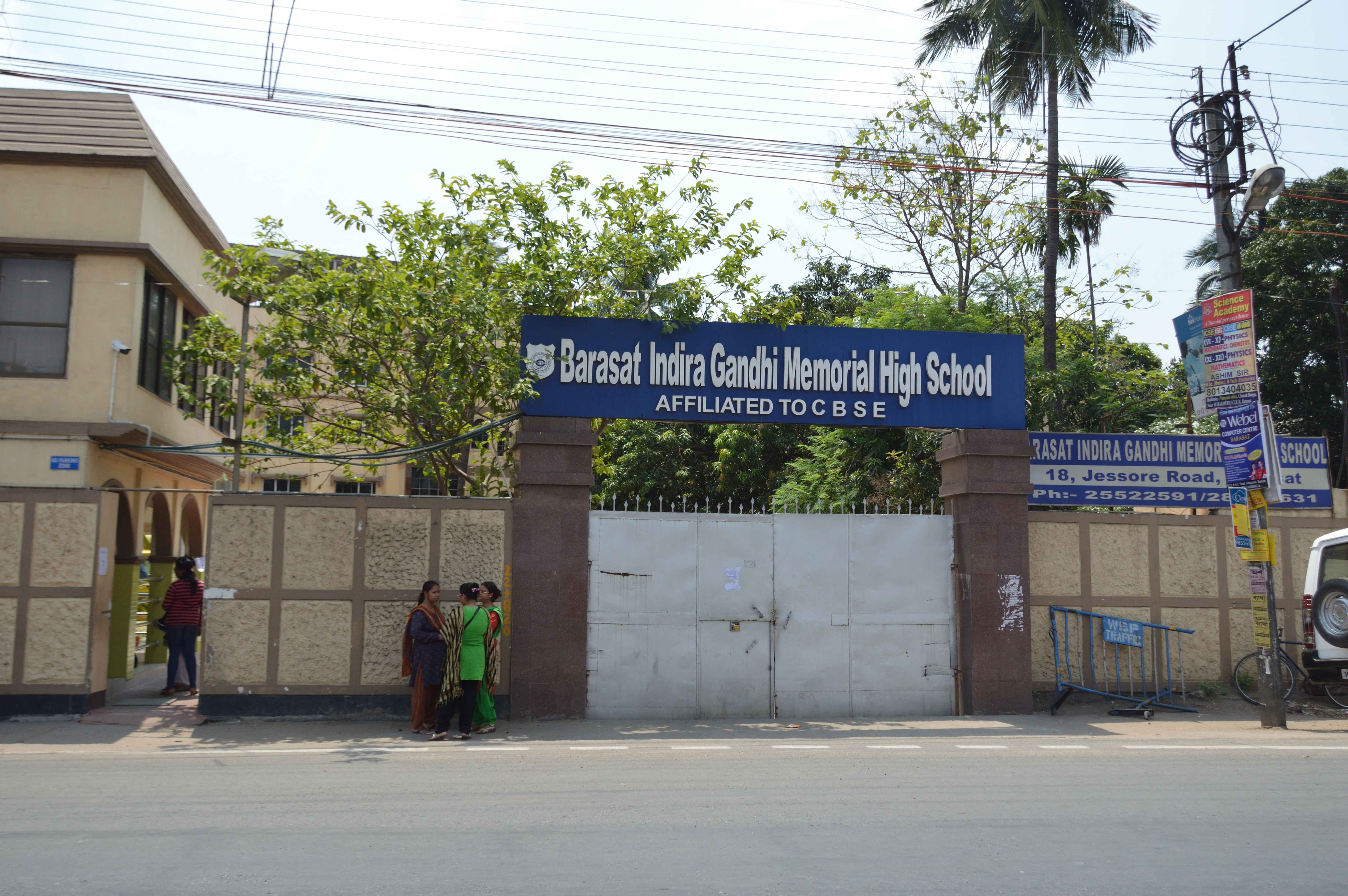 Photographed in North 24 Parganas, West Bengal, India.